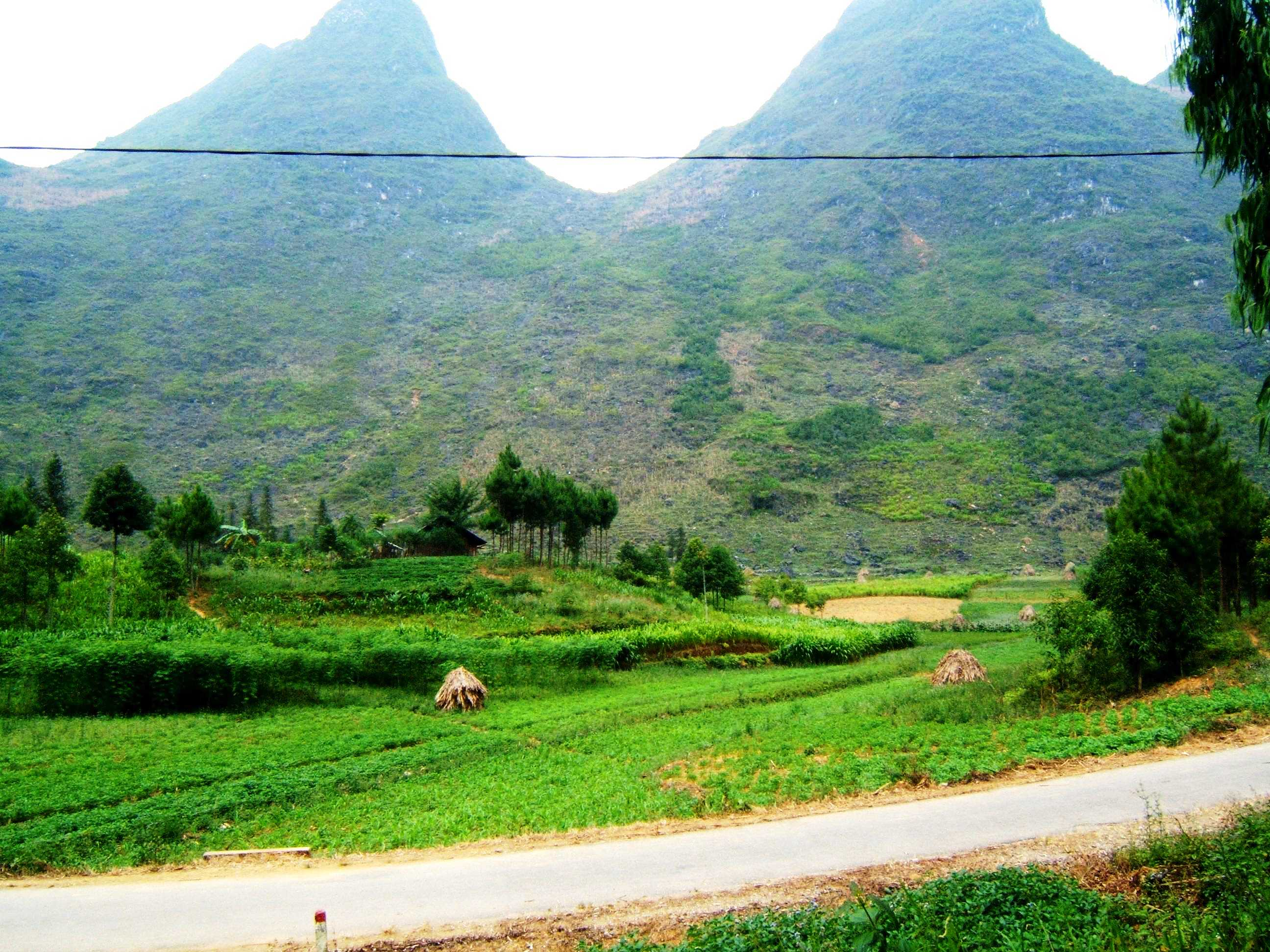 Road 4C & Valley in Pa Vi commune, Ha Giang province, Vietnam